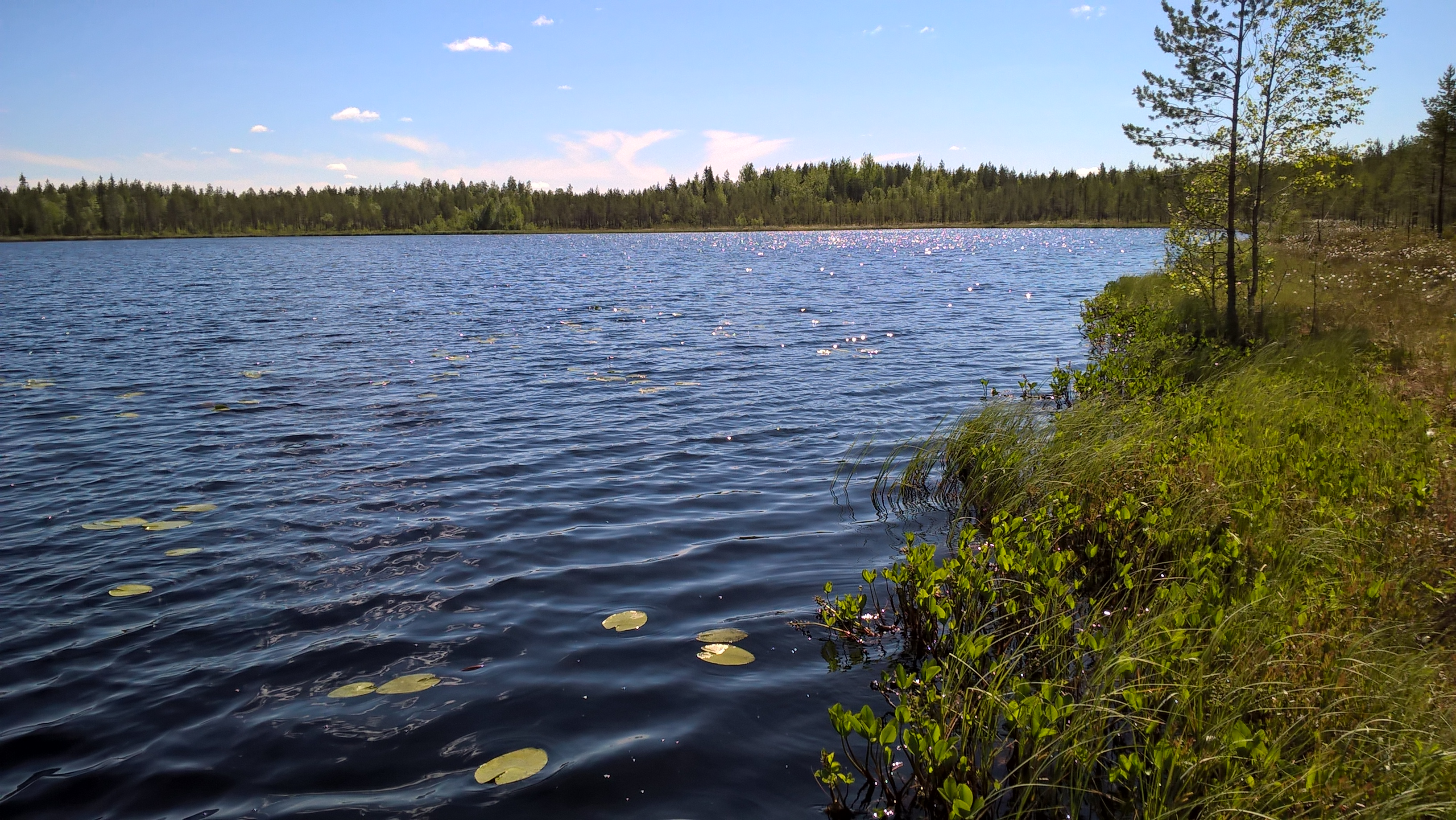 The northern of the two adjacent small Ahvenlammit lakes in Vepsä, Oulu, Finland.